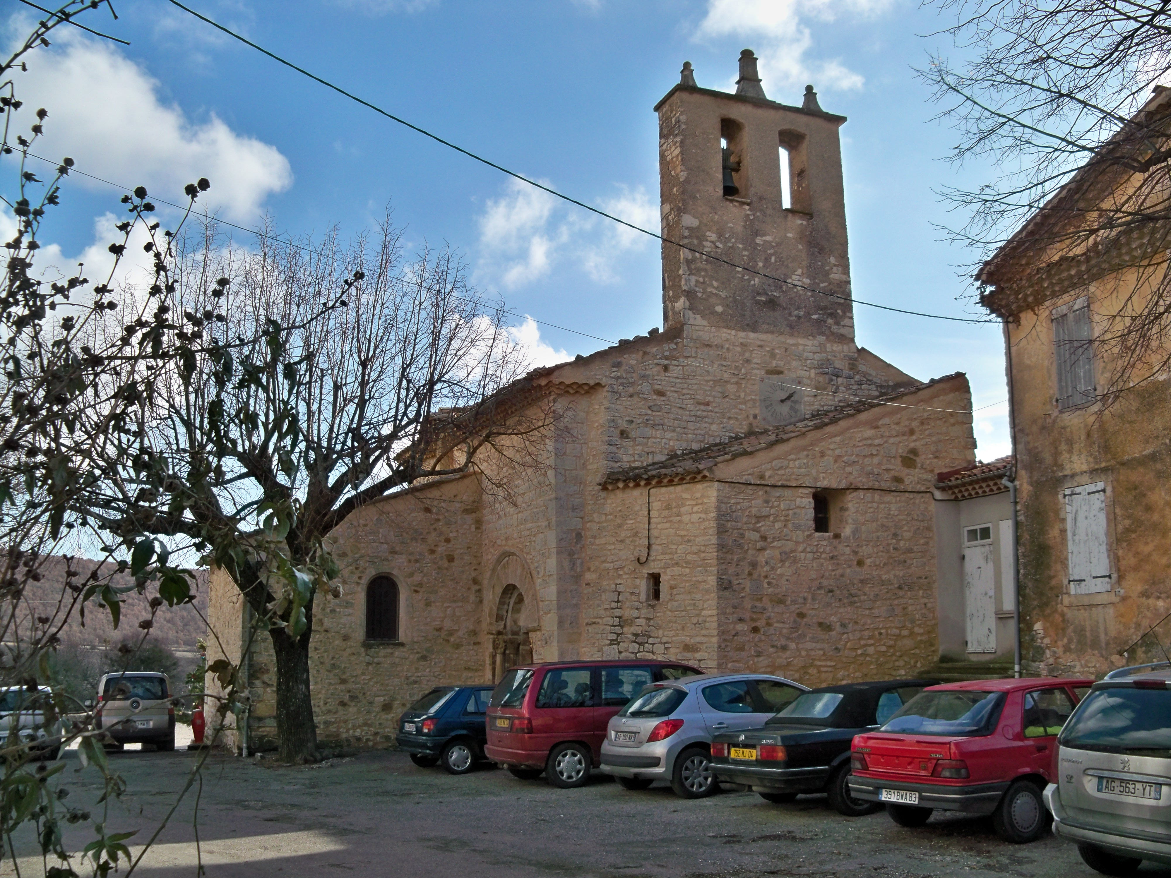 Sainte Anne church in Lardiers, Alpes de Haute Provence, France